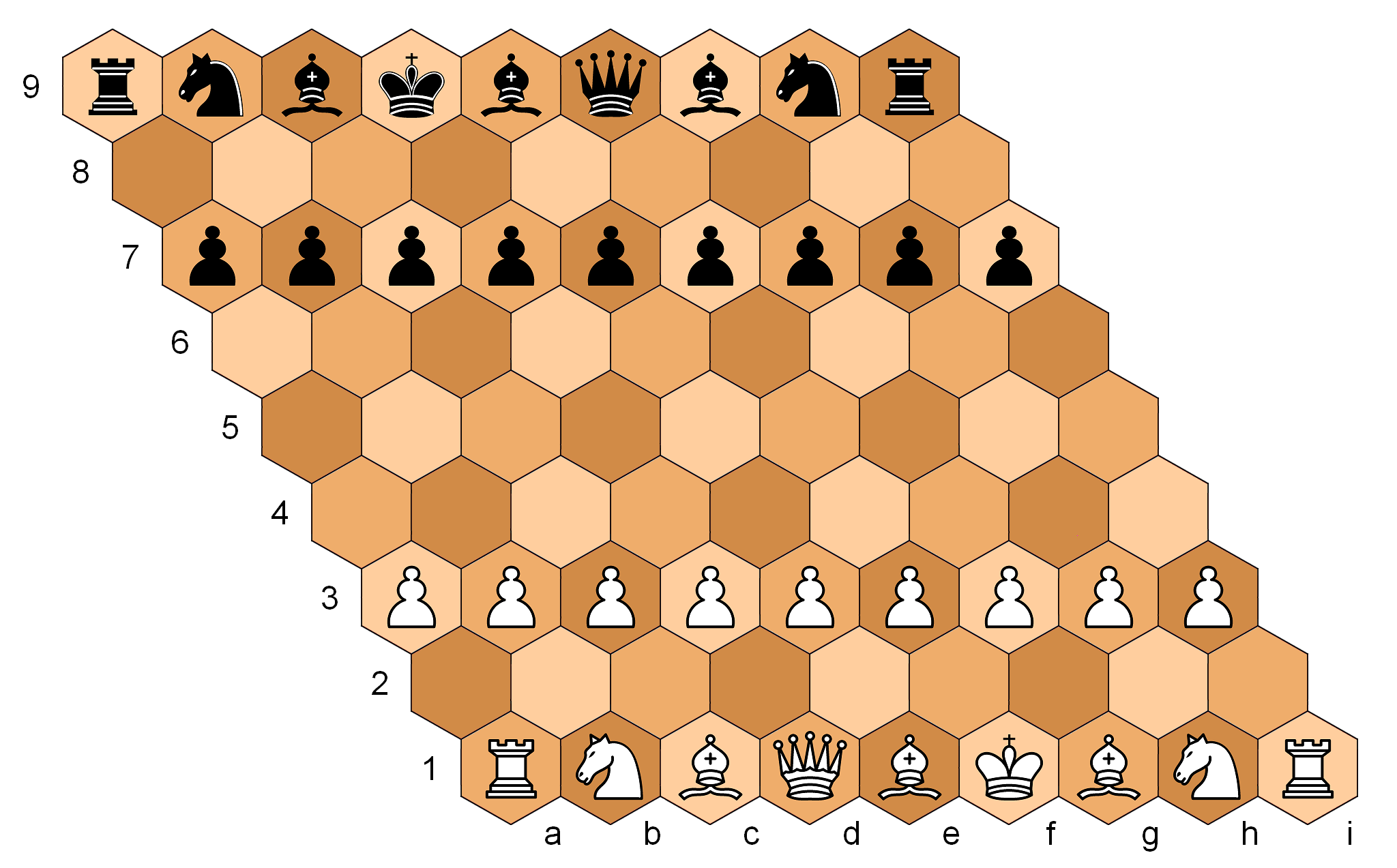 de Vasa's hex chess, board and initial configuration. Made in PAINT using ProjChess colors and the great chess icons fashioned by David Benbennick (User:Dbenbenn).